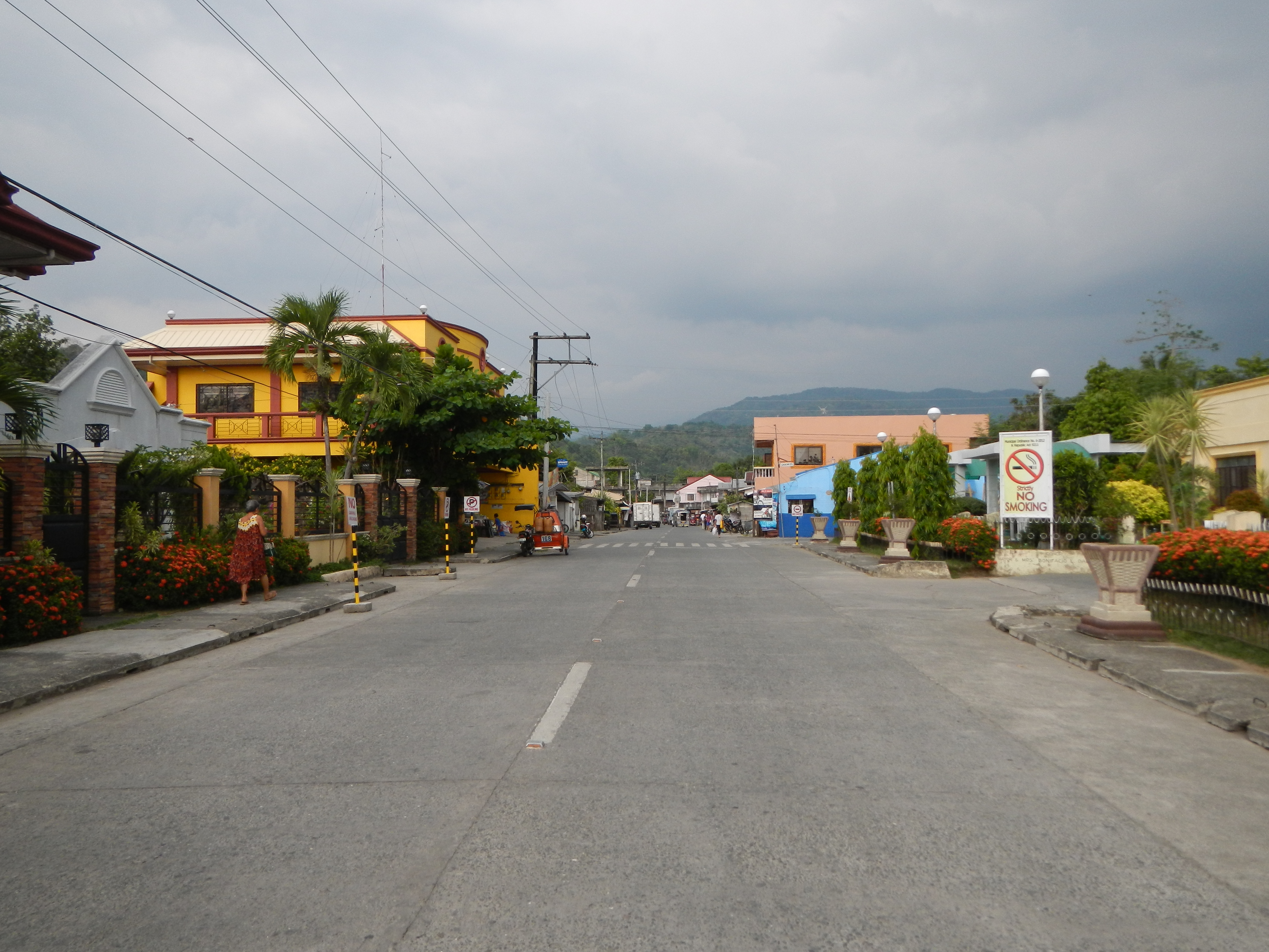 San Gabriel, La Union Province (in San Gabriel, La Union Muniicpal Hall Complex Compound Offices Police Station in Centro Town Proper, Poblacion, beside the June 30, 1935 canonically established [ Saint Gabriel the Archangel Roman Catholic Parish Church (San Gabriel, La Union) 2513 La Union, PhilippinesTitular: St. Gabriel Archangel, April 20 feast Parish Priest: Father Nolan R. Nabua, and Monument of St. Gabriel).